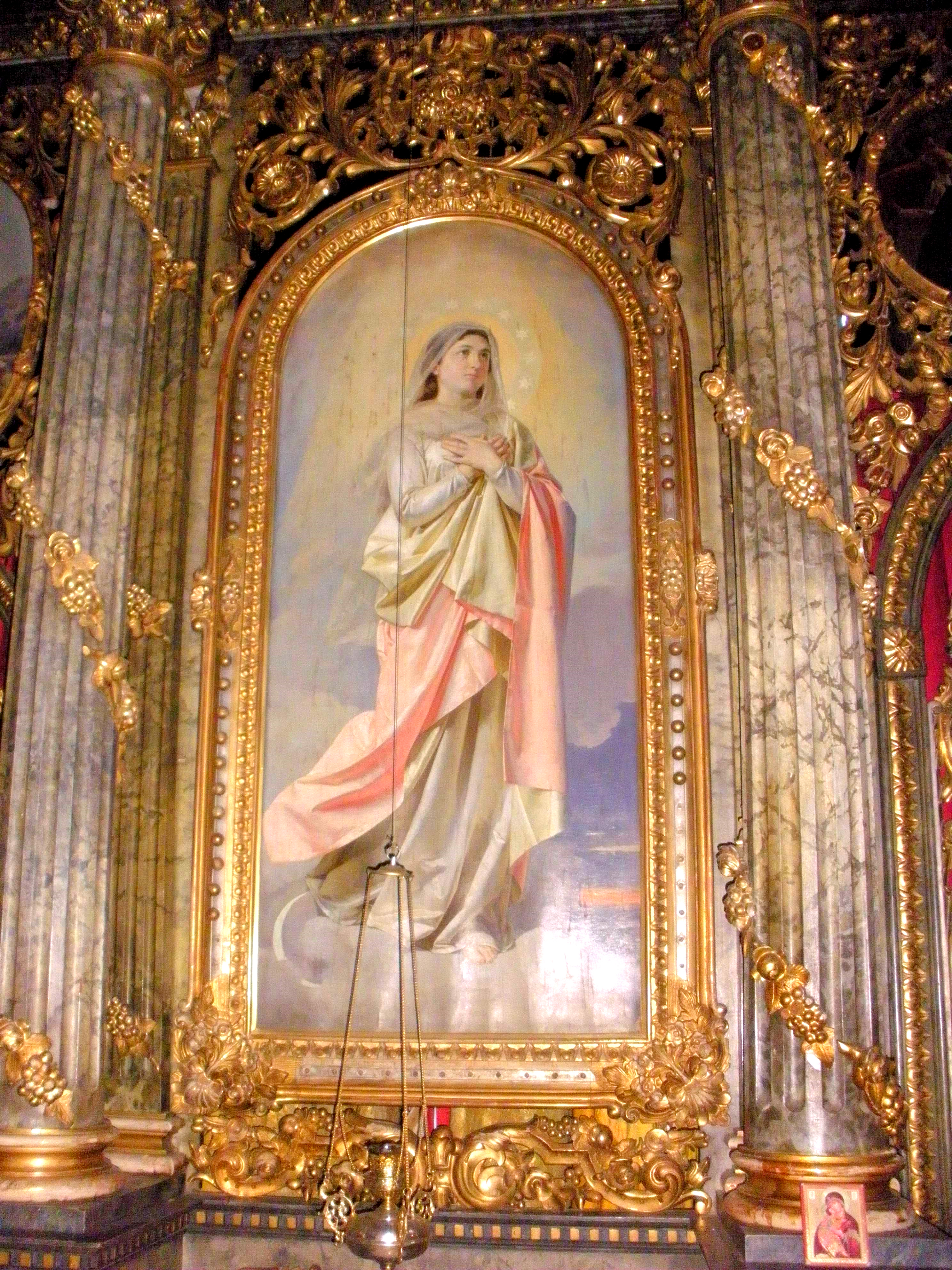 Picture of Mary Immaculate in Orthodox Church in Perlez, Vojvodina